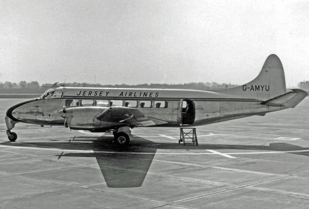 DH.114 Heron 1B of Jersey Airlines at Manchester (Ringway) Airport whilst operating a scheduled service from Jersey.